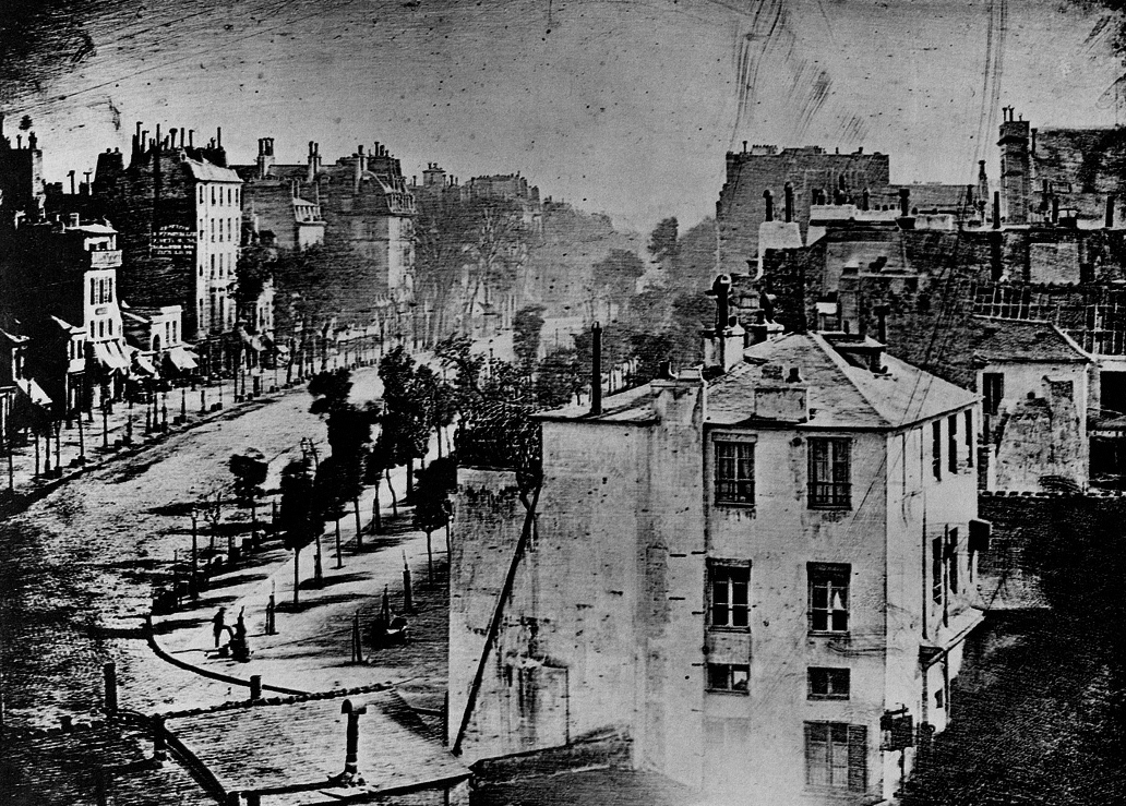 This is "Boulevard du Temple", the first ever photograph of a person. The photo was taken by Louis Daguerre in late 1838 or early 1839 in Paris. It is of a busy street, but because exposure time was over ten minutes, the city traffic was moving too much to appear. The exception is a man in the bottom left corner, who stood still getting his boots polished long enough to show.